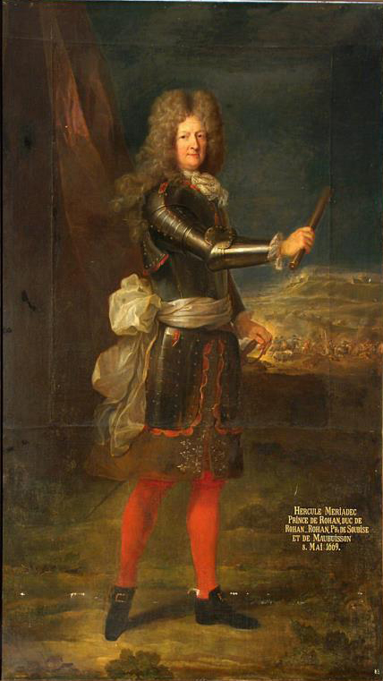 Portrait of Hercule Mériadec, Duke of Rohan-Rohan (1669-1749)